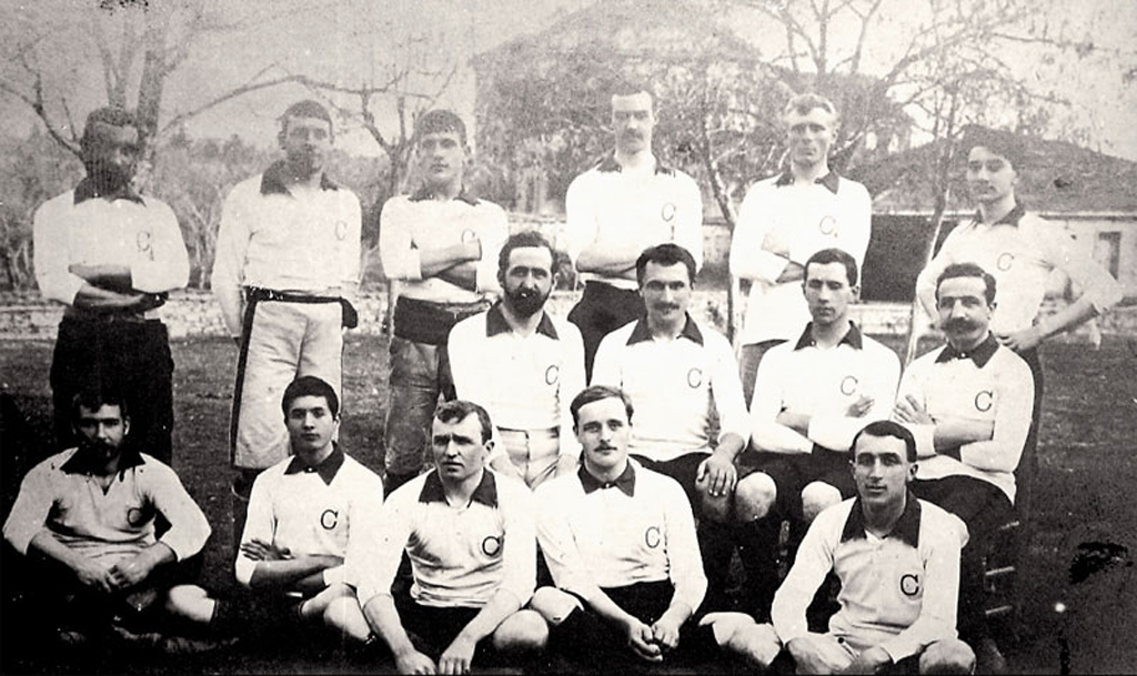 Cadi-Keuy Football Club 1906-1907 Champion.jpg